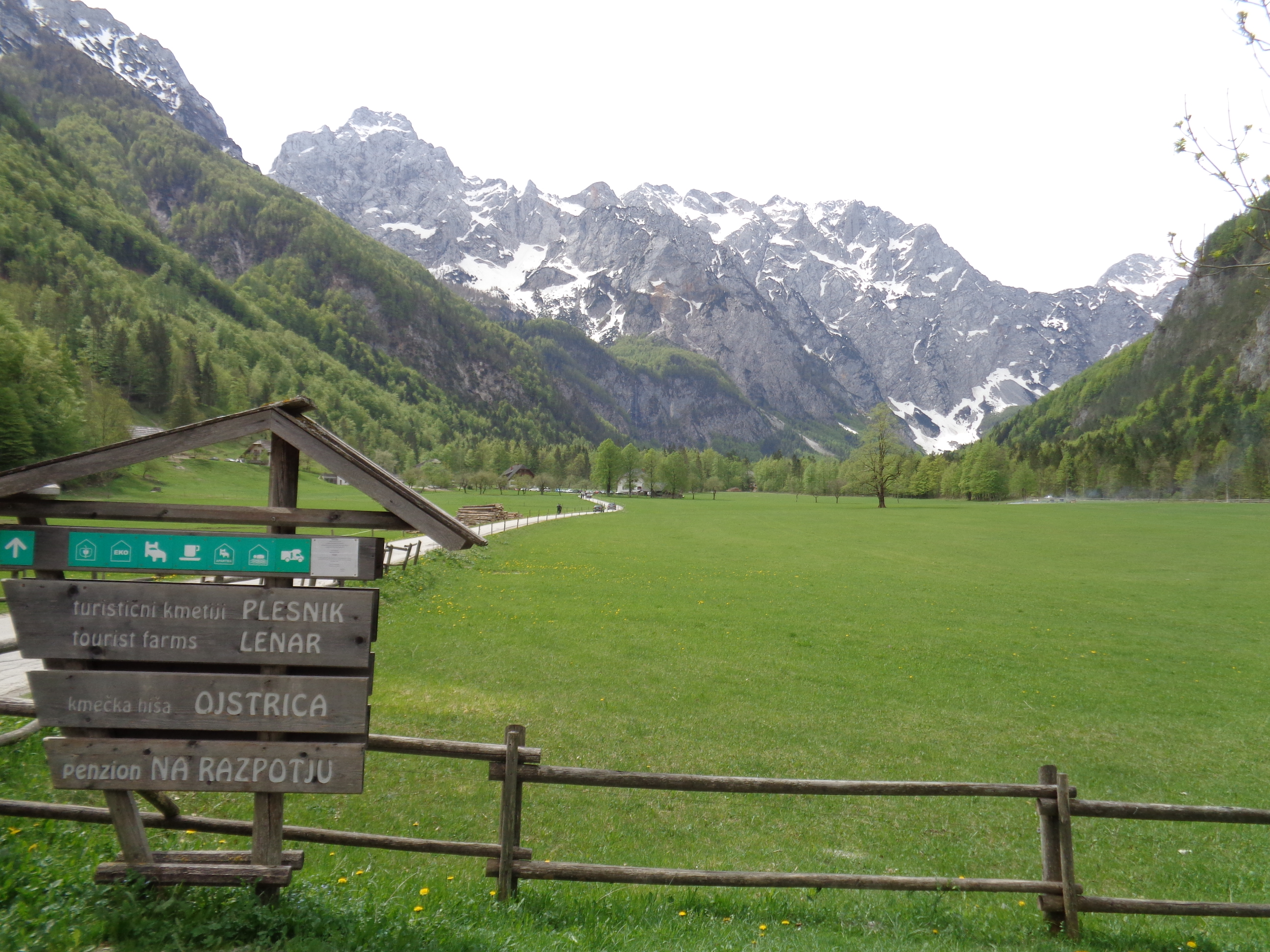 Logar Valley (Slovenia) - meadow and a guide sign in front of it